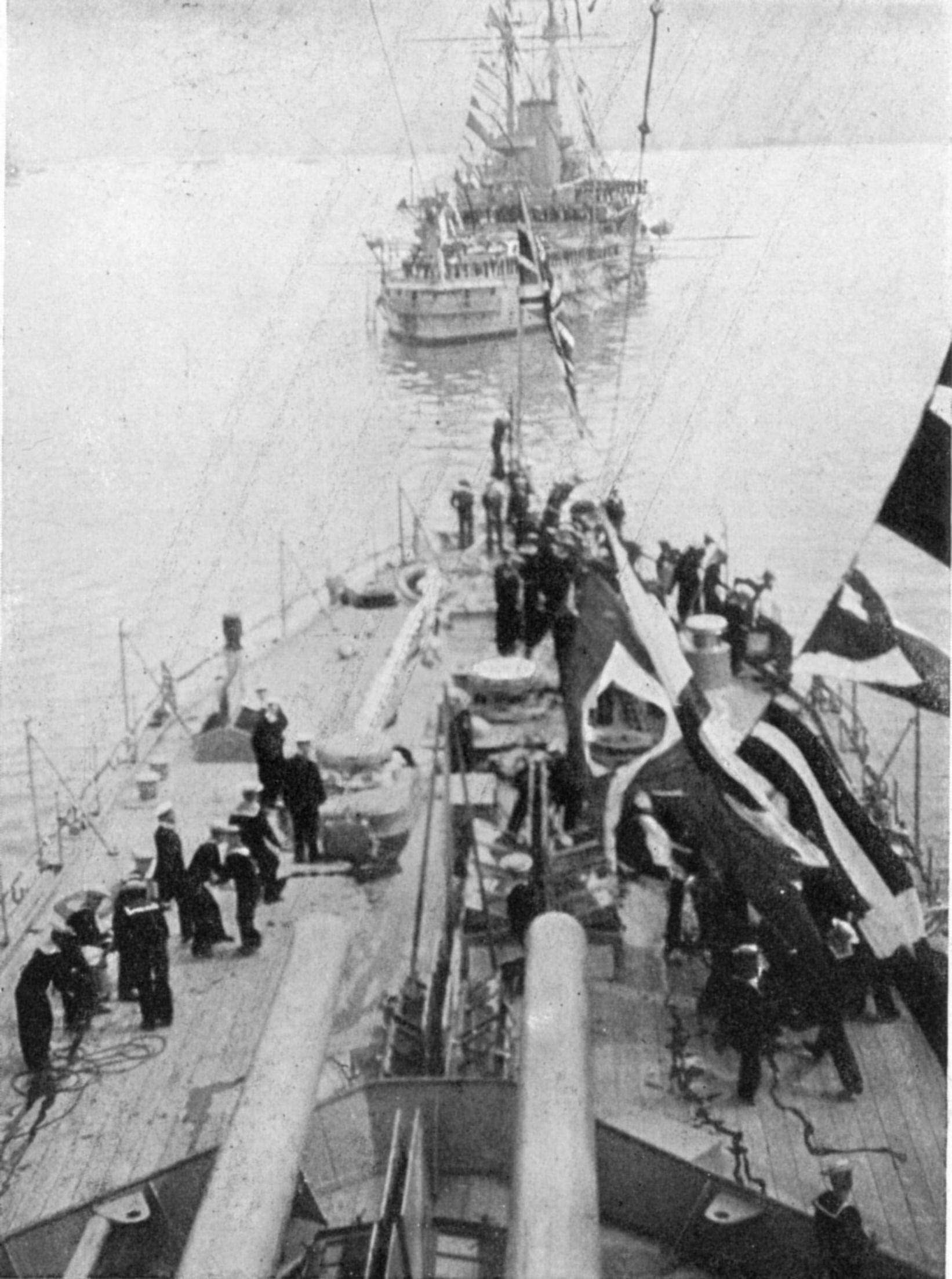 View from bridge of HMS Dreadnought during Naval review.